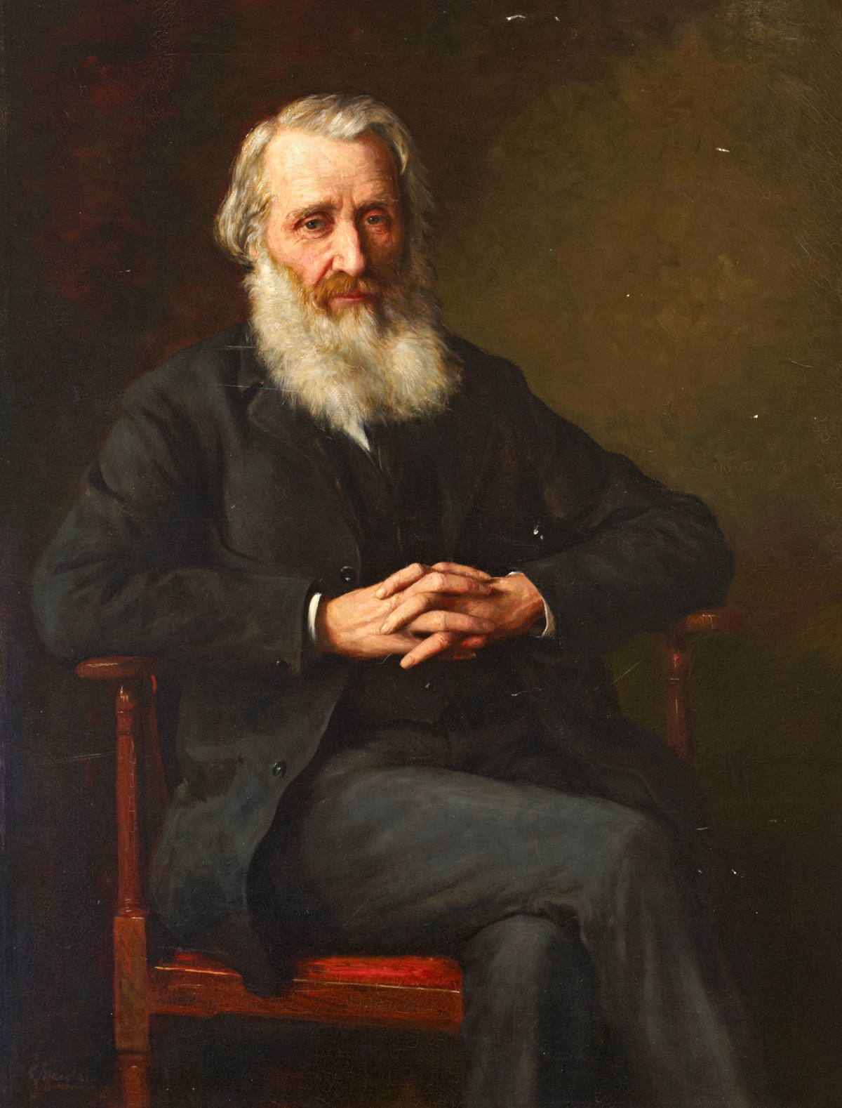 Portrait of John Tomes (1815–1895), English dental surgeon.